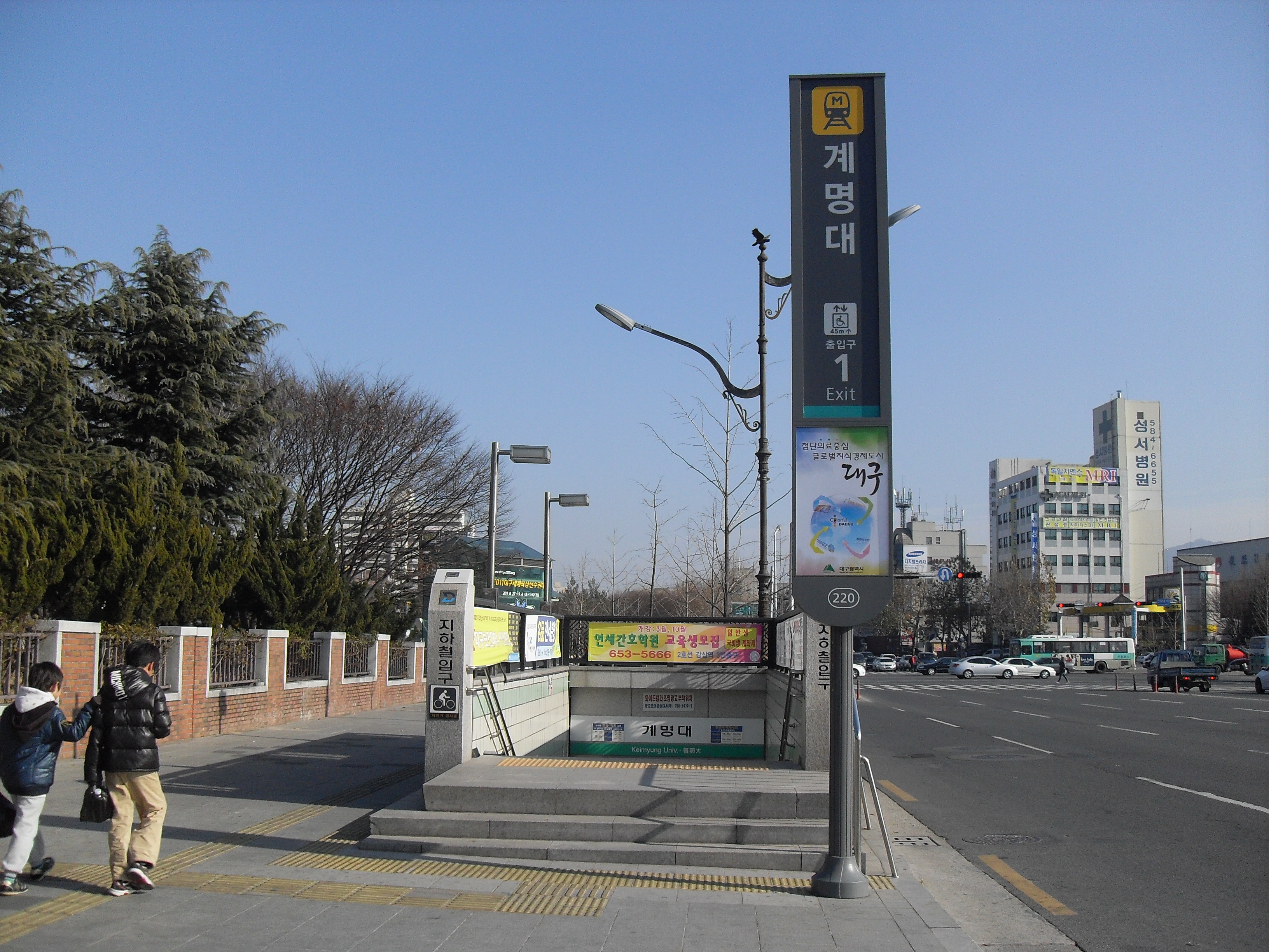 The entrance no.1 of Keimyung University Station, Daegu metro Line2, South Korea